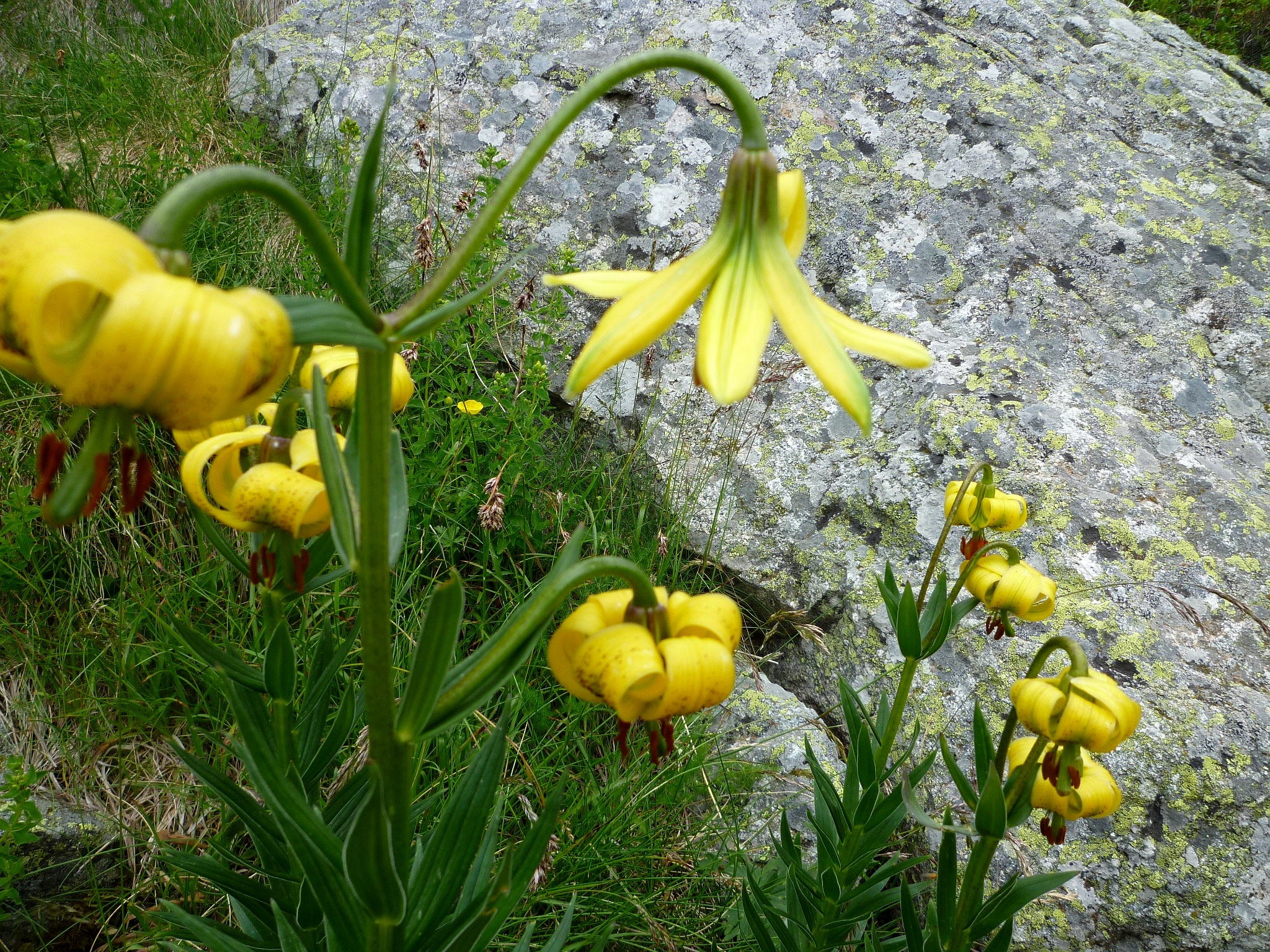 Lilium pyrenaicum. In Cabdella (Pallars Jussà - Catalunya. To 2.110 m altitude